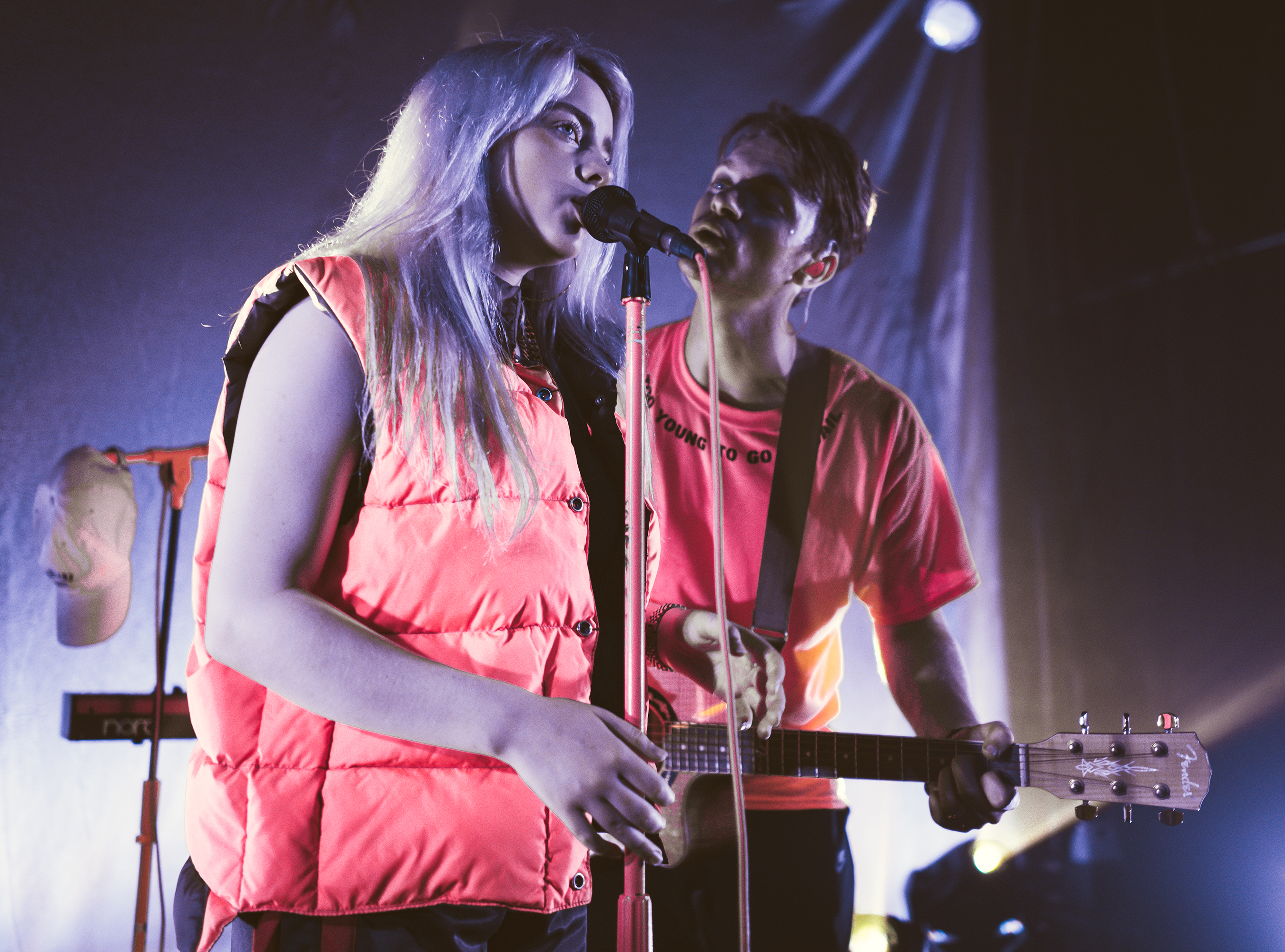 Billie Eilish performing live at The Hi Hat in Highland Park, Los Angeles, California, on Thursday, August 10, 2017.